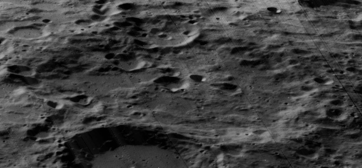 Oblique view of Tsander, on the far side of the moon, facing west. Dark diagonal lines are artifacts of reprocessing.